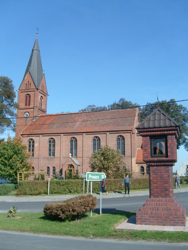 The church in Serock Pomorski, Poland.